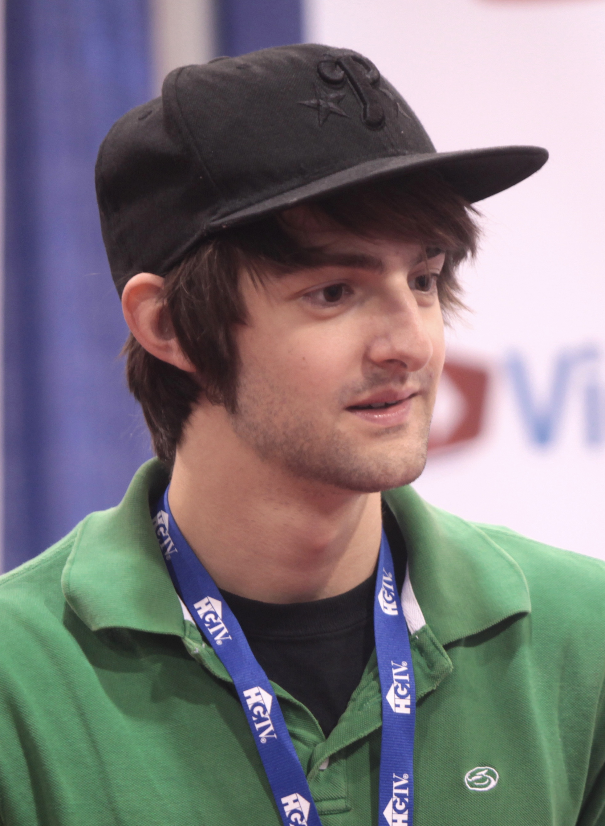 Dave Days speaking at the 2014 VidCon at the Anaheim Convention Center in Anaheim, California.